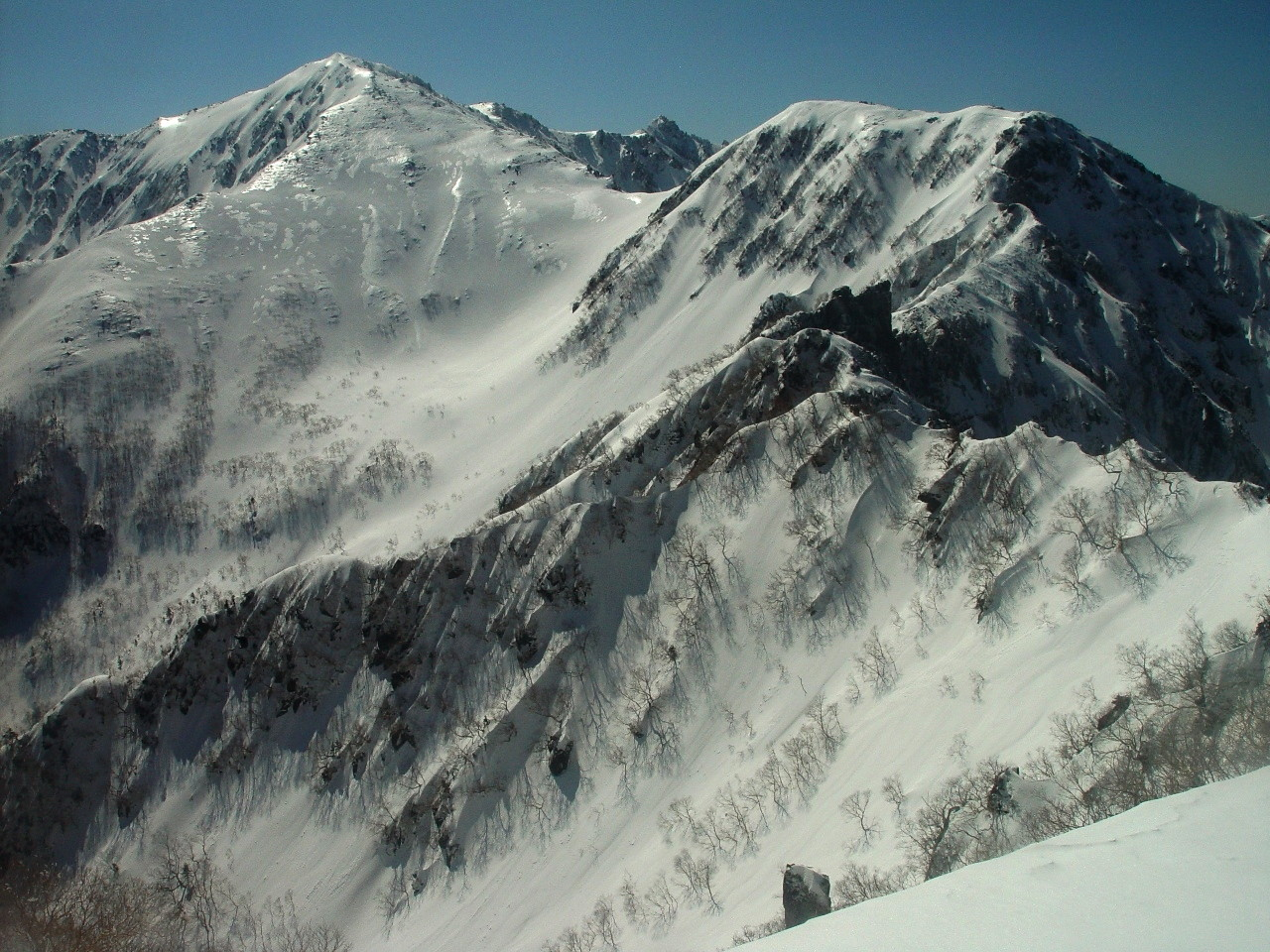 Mount Kisokoma seen from Mount Mugikusa in Kiso Mountains, Japan.